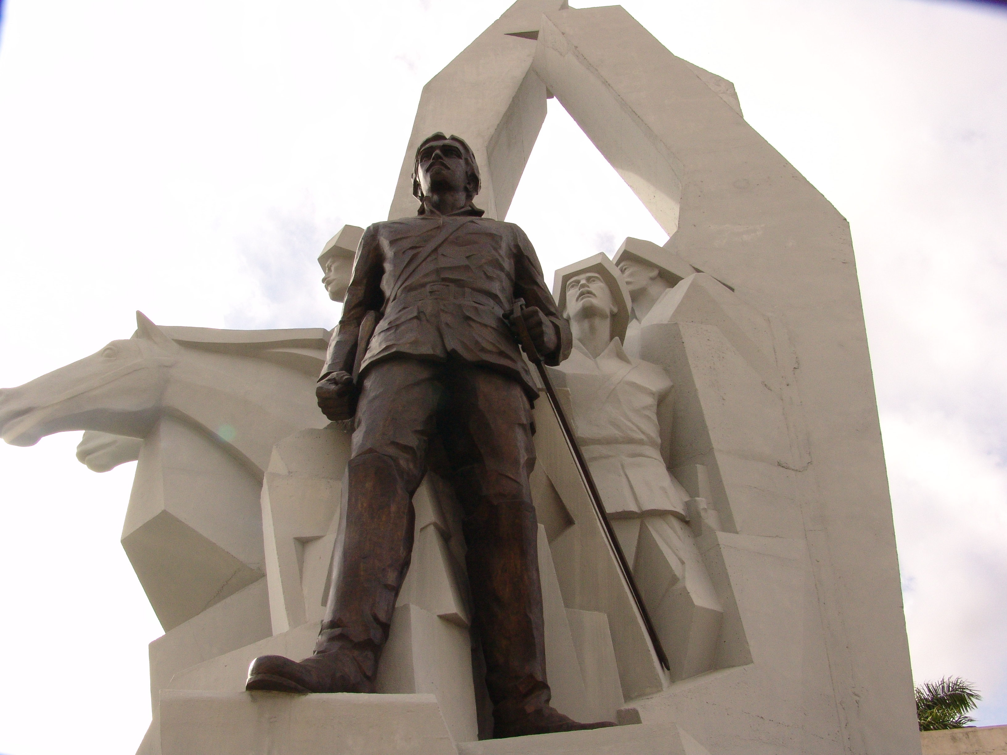 The statue of Ignacio Agramonte on the Plaza de Revolucìon in Camagüey. I took the picture.